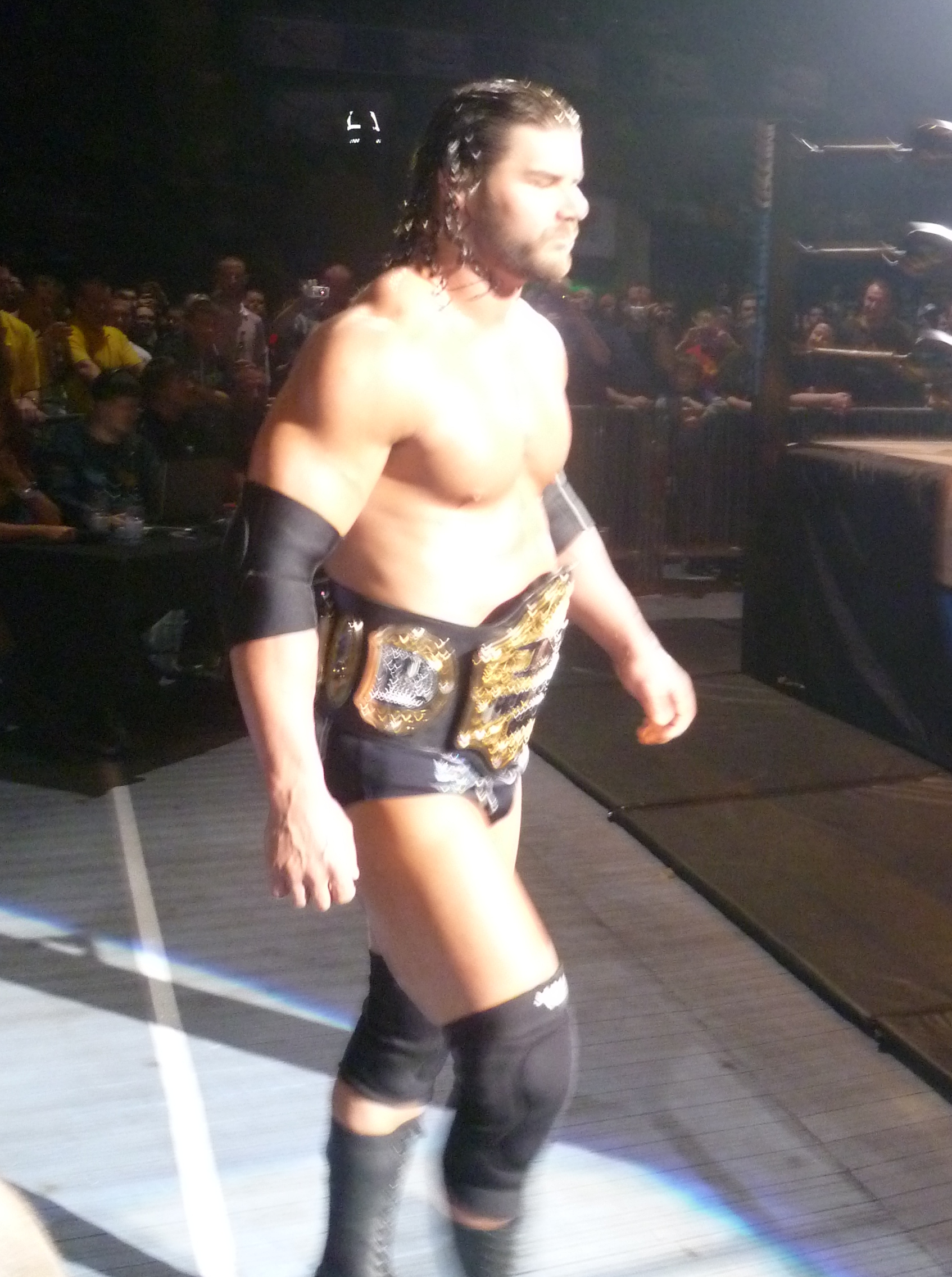 TNA World Heavyweight Champion Bobby Roode at a TNA house show on January 26, 2012.